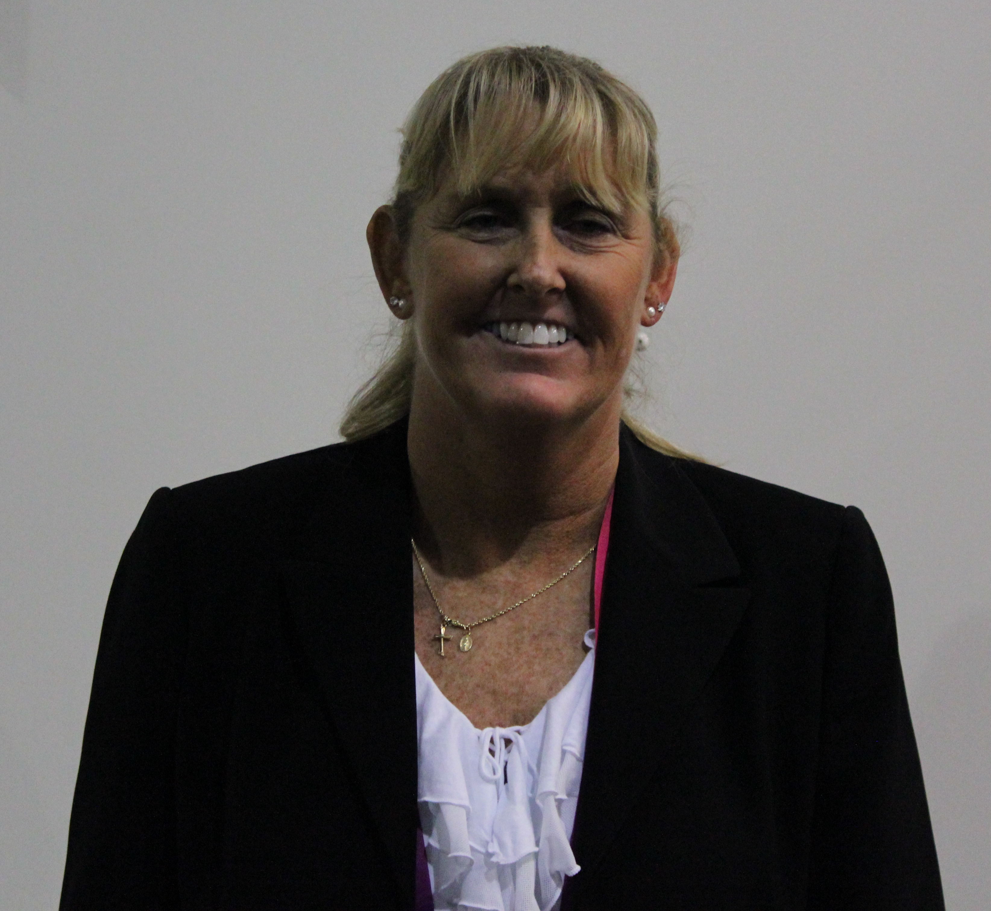 Triscia Zorn at the London Paralympic Games in 2012. She was interviewed by Wikinews after presenting a medal at the swimming.